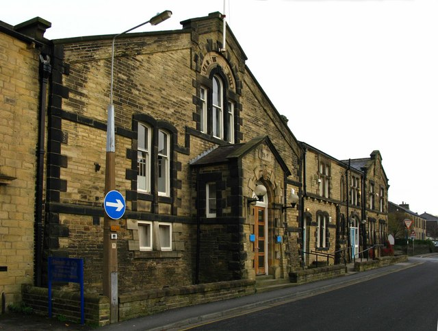 Wellington House Erected on Otley Street in the early 1900's. The date stone and name of this former Hall are badly worn.